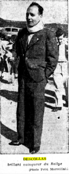 G.Descollas during the 3rd Rally of the French Alps 1934. Le Petit Marseillais 16 07 1934